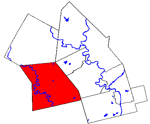 Wilmot